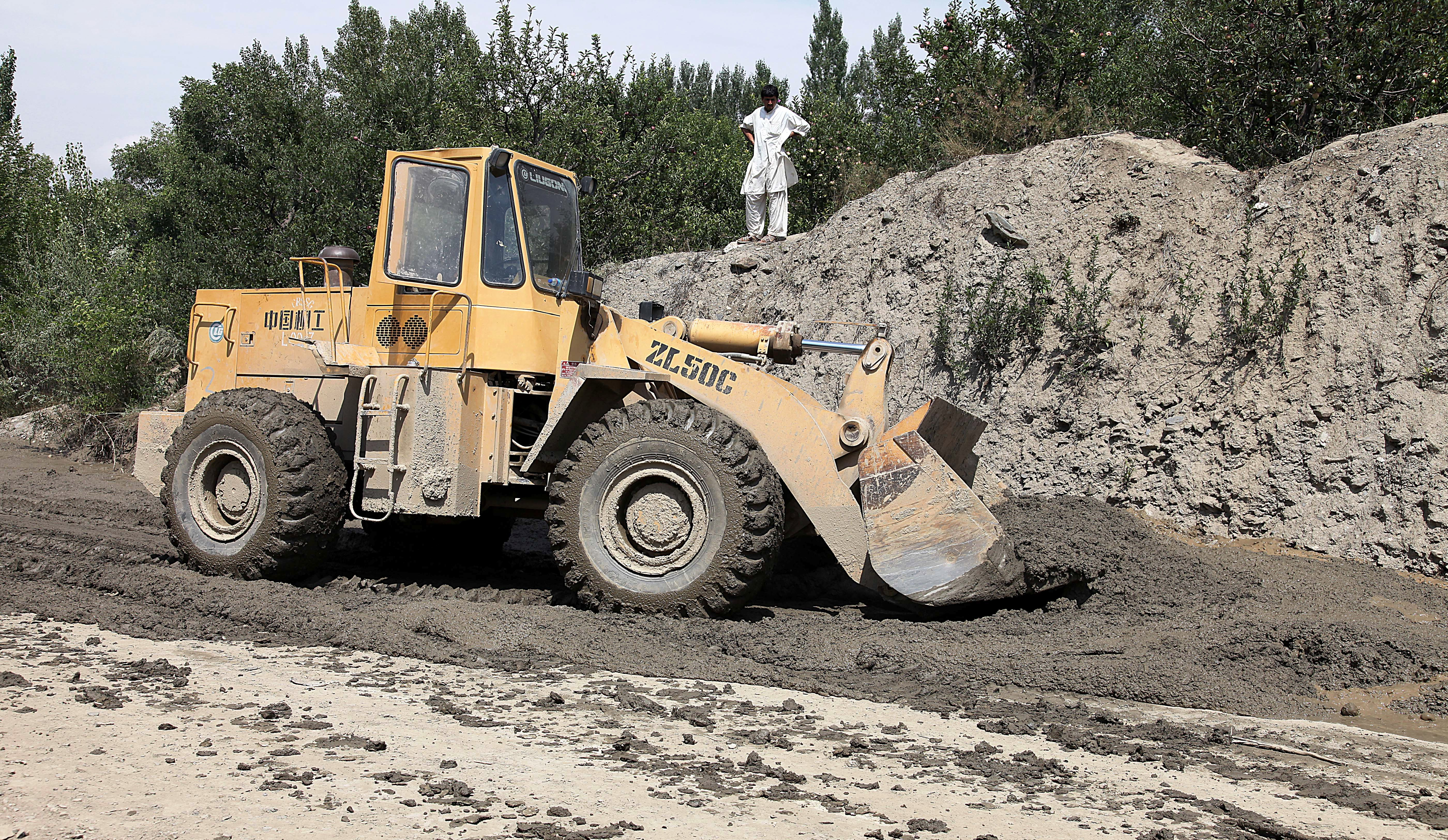 A chinese-built Liugong ZL50C loader in Wardak Province, Afghanistan.